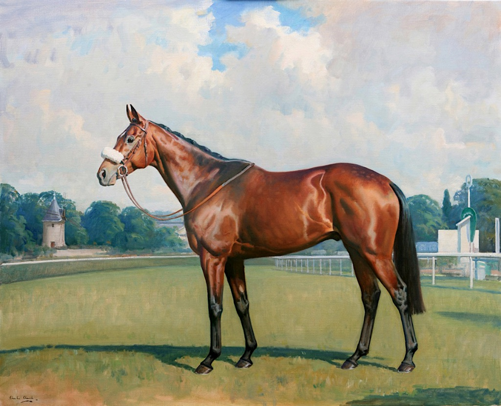 Dunaden: Winner of the 2011 Melbourne Cup, painted by Dorset-based painter of horses and country life, Charles Church